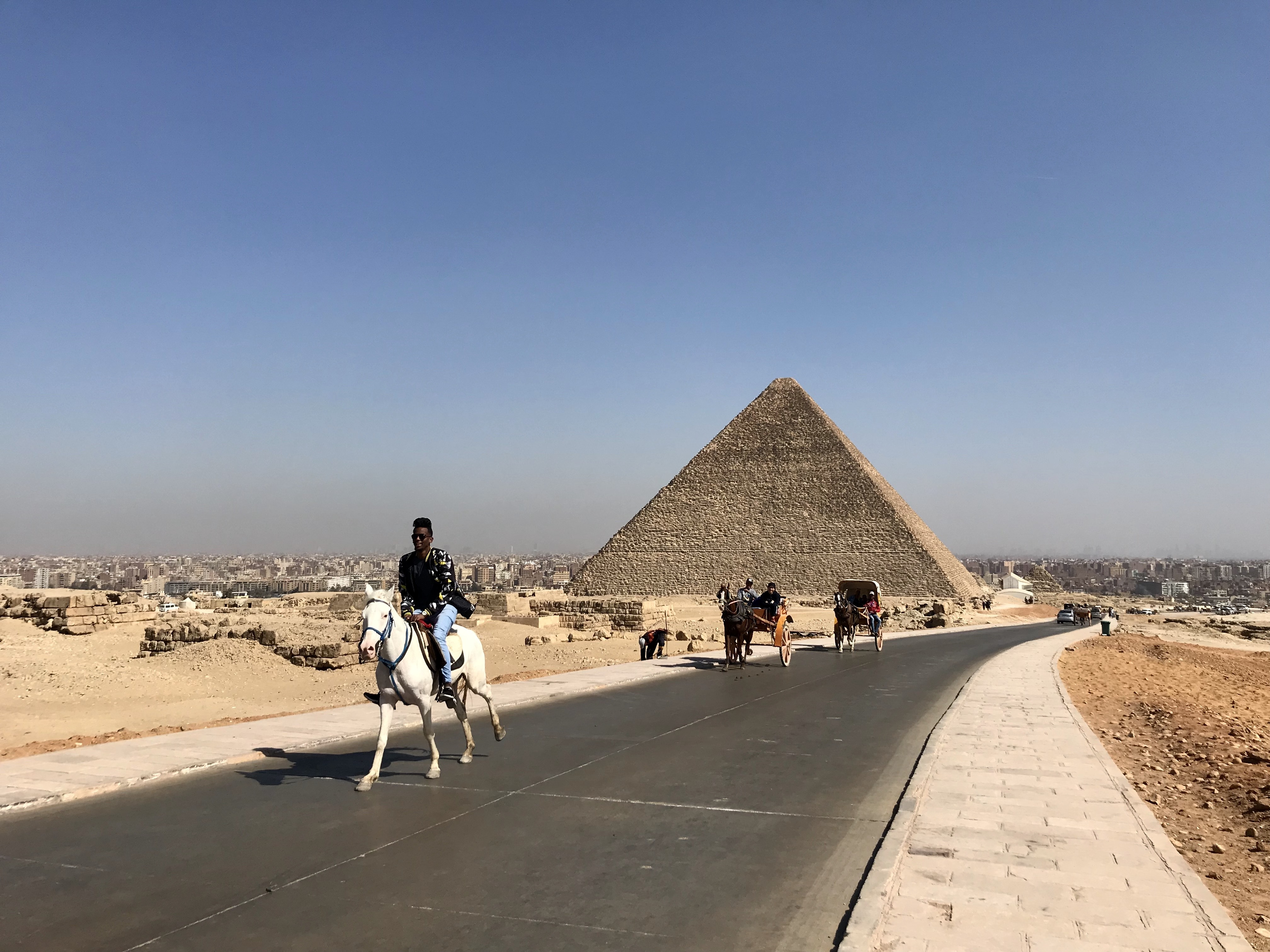 A horse and rider touring the pyramids of Giza, in Cairo Egypt. This is an image with the theme "Africa on the Move or Transport" from: Egypt